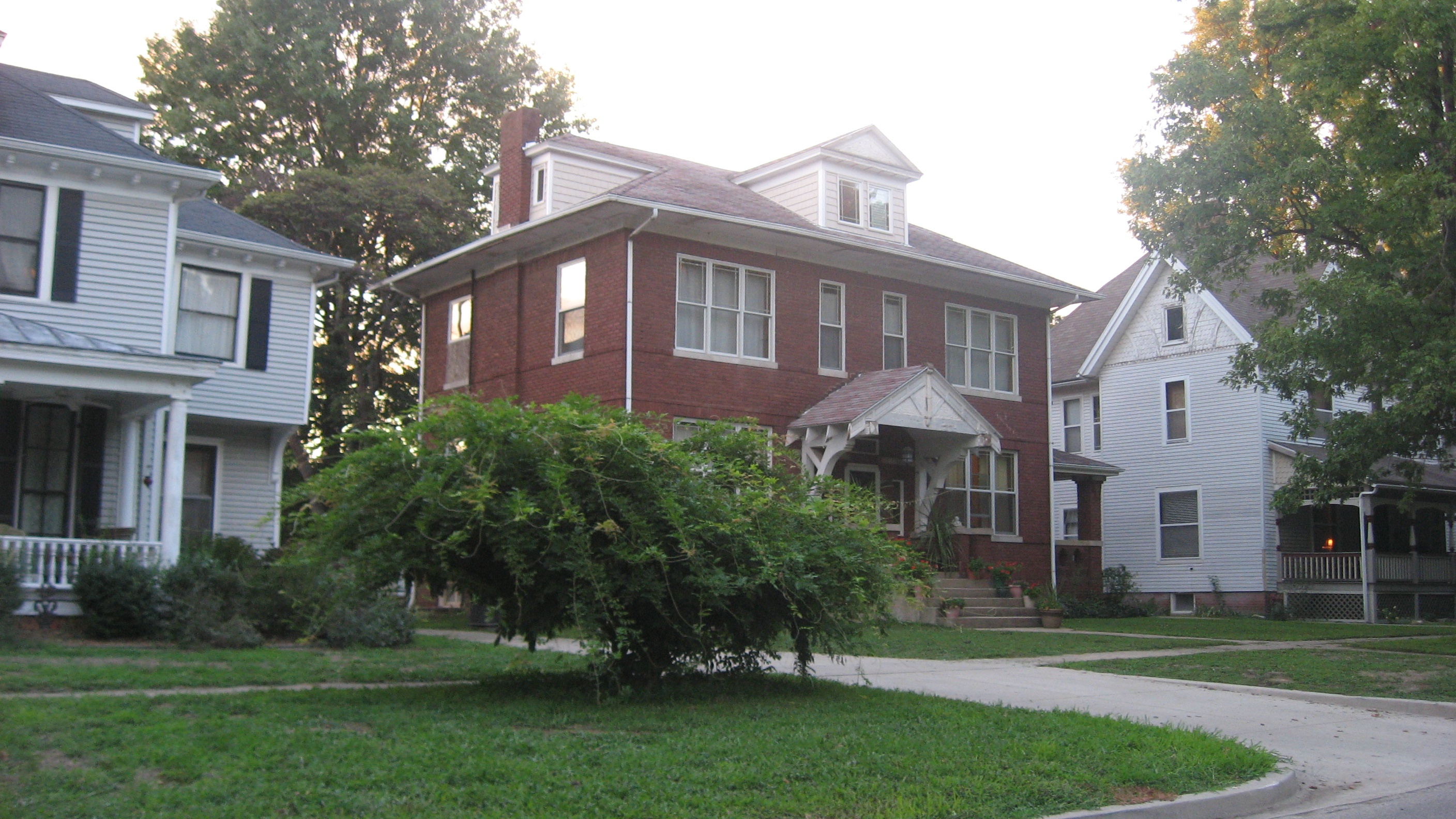 Houses on the western side of the 400 block of S. Elliott Street in Olney, Illinois, United States. This block is part of the Elliott Street Historic District, a historic district that is listed on the National Register of Historic Places.